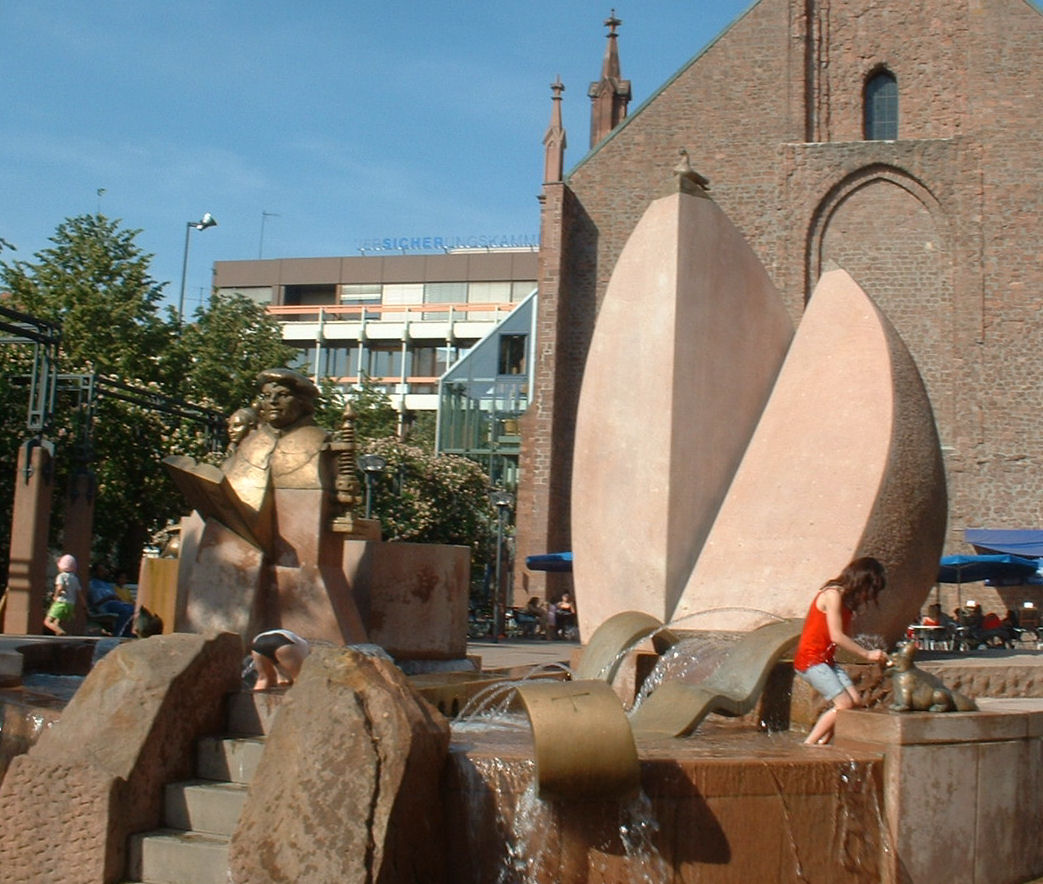 fountain of Martin Luther in Ludwigshafen by the German sculpors Gernot Rumpf and Barbara Rumpf